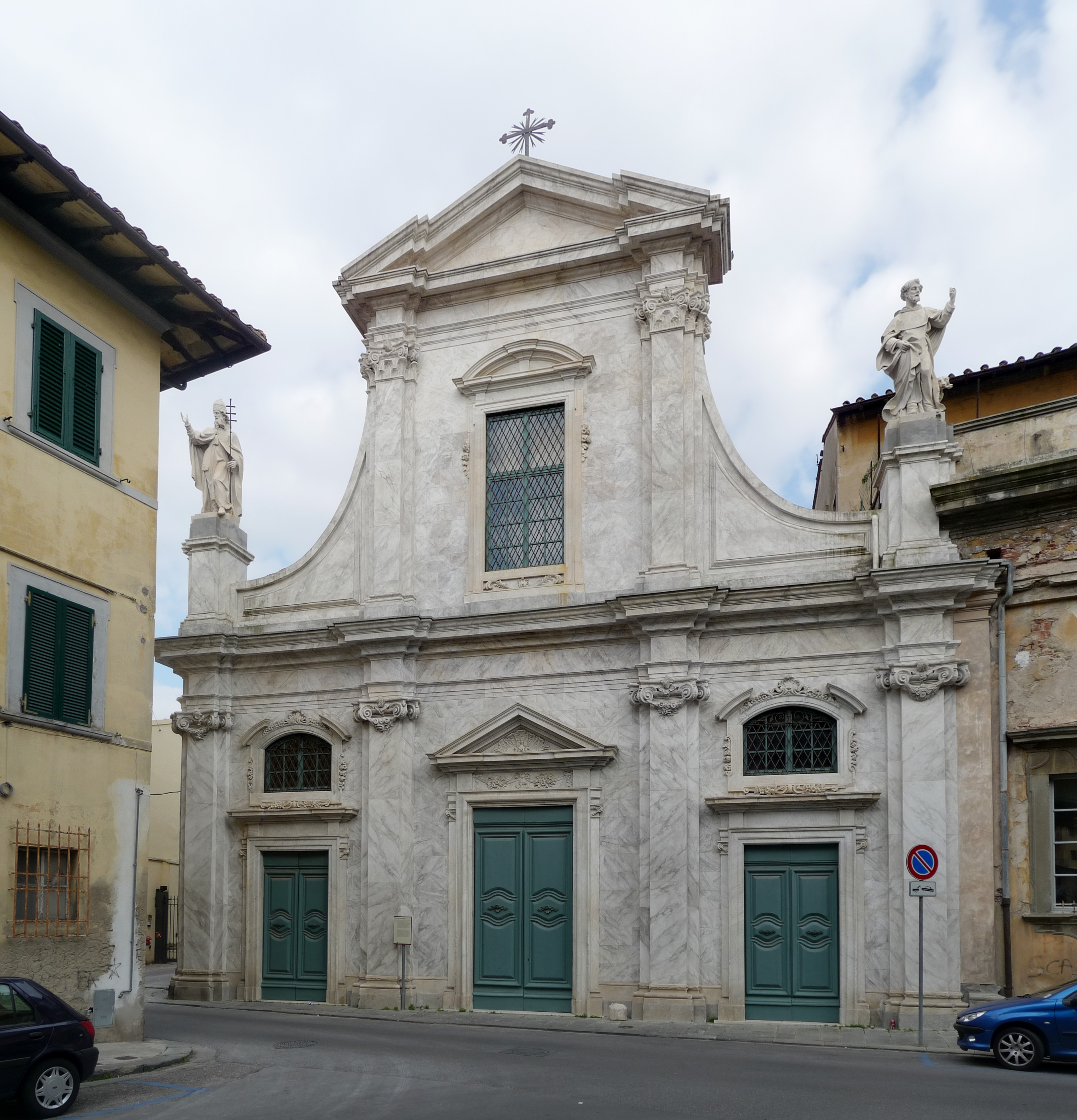 Chiesa di San Silvestro, Pisa, Italy